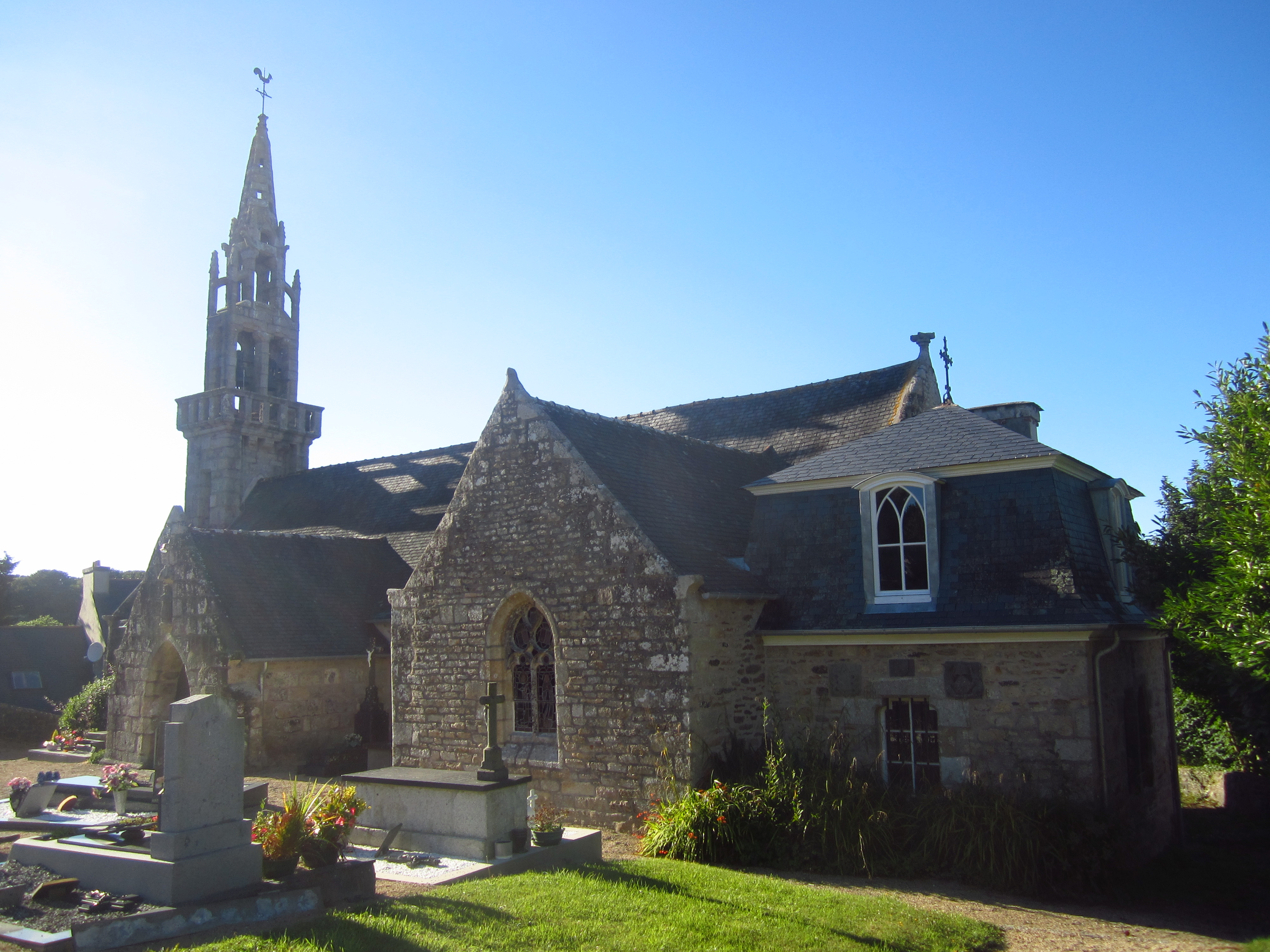 Church of Lanneuffret, Finistère